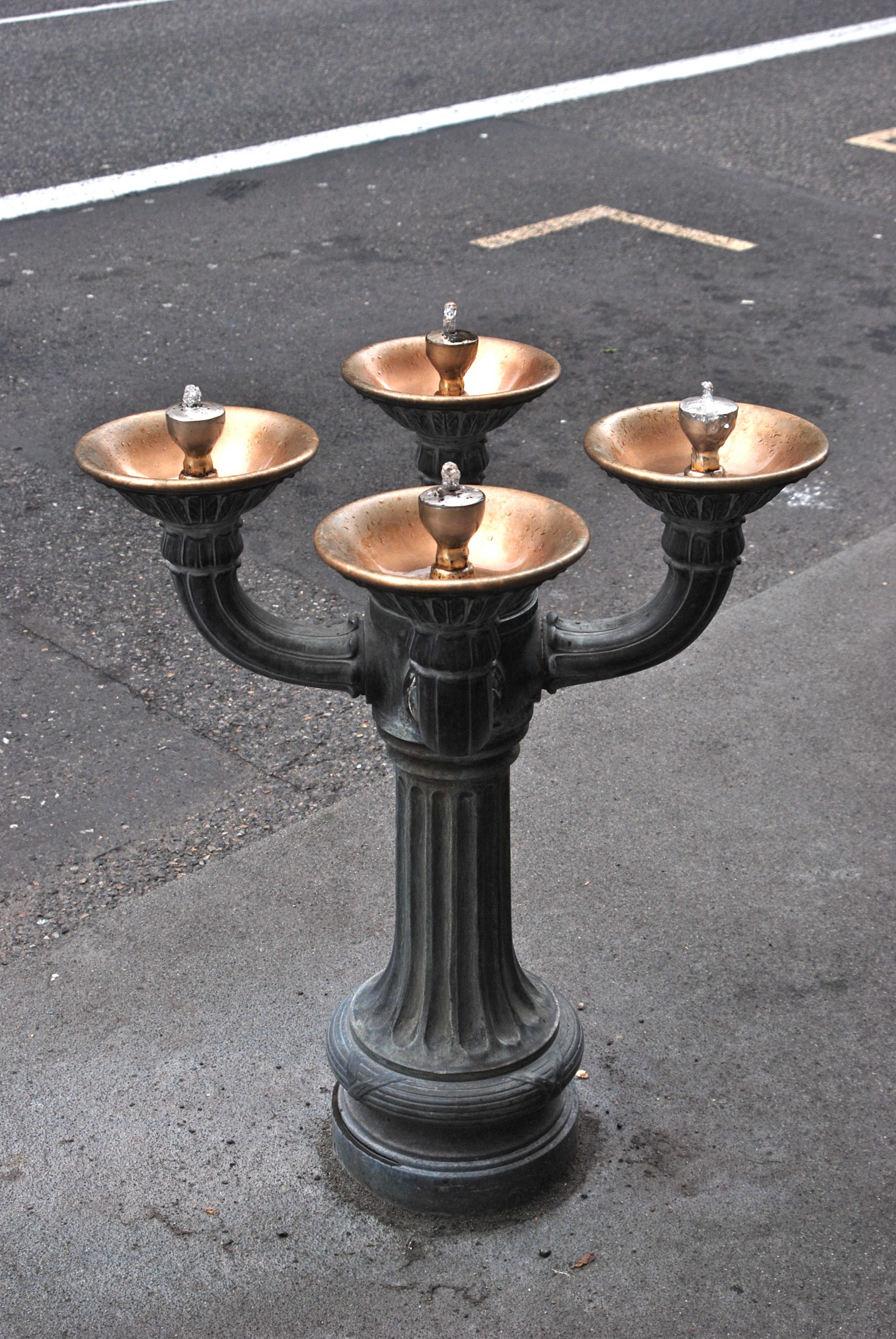 One of many "Benson Bubblers" in Portland, Oregon (mostly in downtown). This one is located at the southwest corner of Broadway and Washington Street.